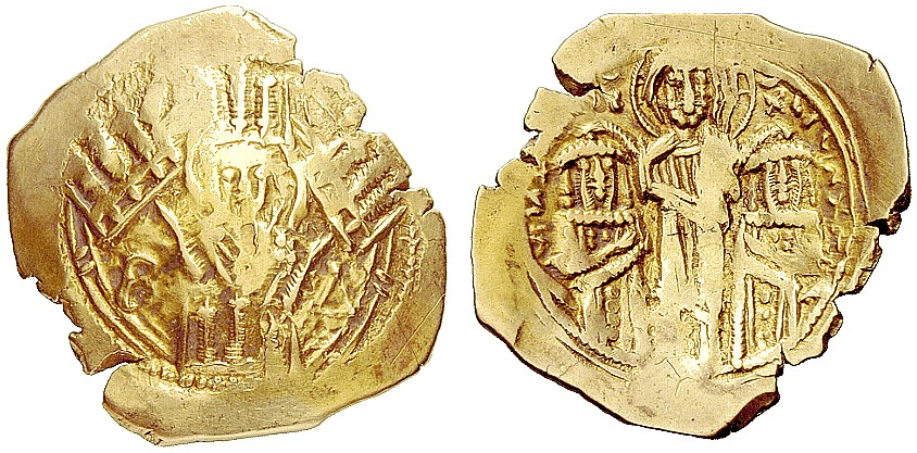 John V, Palaeologus with John VI Cantacuzene, joint reign, 1347-1353. Hyperpyron. Obverse: The Virgin orans within Constantinople's city walls furnished with four groups of towers in lower field ´ / B – A. Reverse: IωЄNXω downwards – IωЄNXω John VI on l., and John V on r. both wearing divitision and loros , holding outer arm to chest and kneeling at either side of Christ who stands facing, placing hands on their heads; in upper field, IC – XC. Sear 2526.